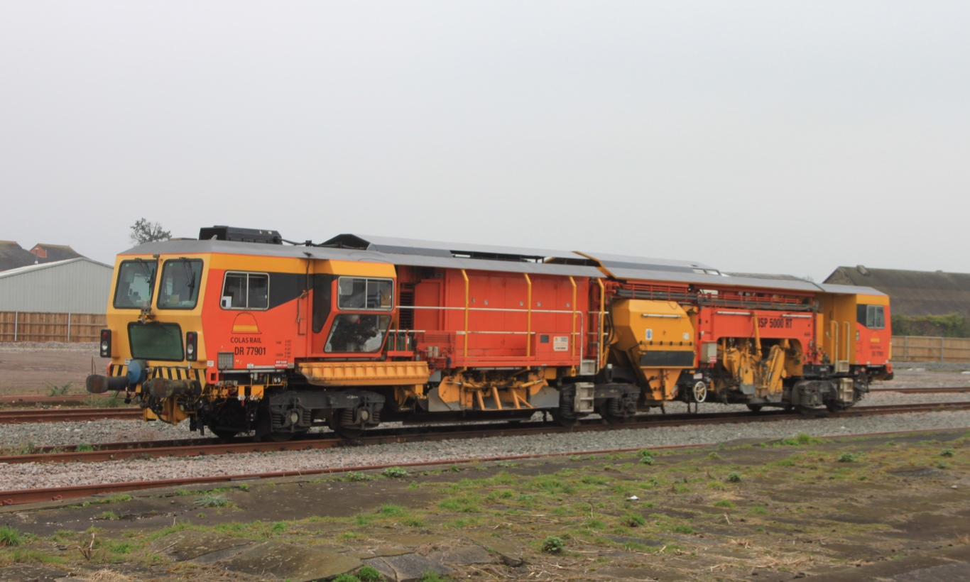 A USP5000C ballast regluator (number 77901), part of Colas Rail's infrastructure fleet, in the locomotive sidings at Taunton.